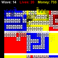 This is a small screen shot of the tower defense game GauntNet.